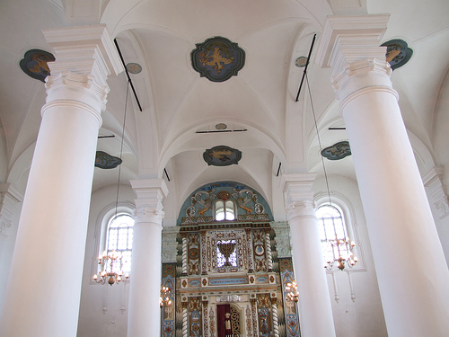 Great Synagogue in Włodawa